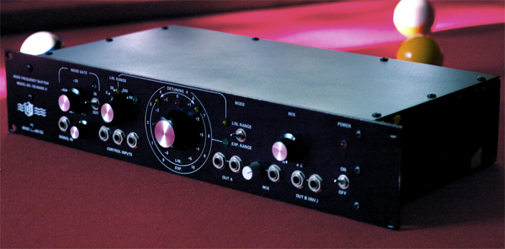 Bode Sound Co. Frequency Shifter Model 735 Mark III Designed and manufactured by Harald Bode